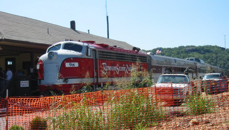 Another view of the EMD F9 boarding passengers for the Branson Scenic Railway in Branson.